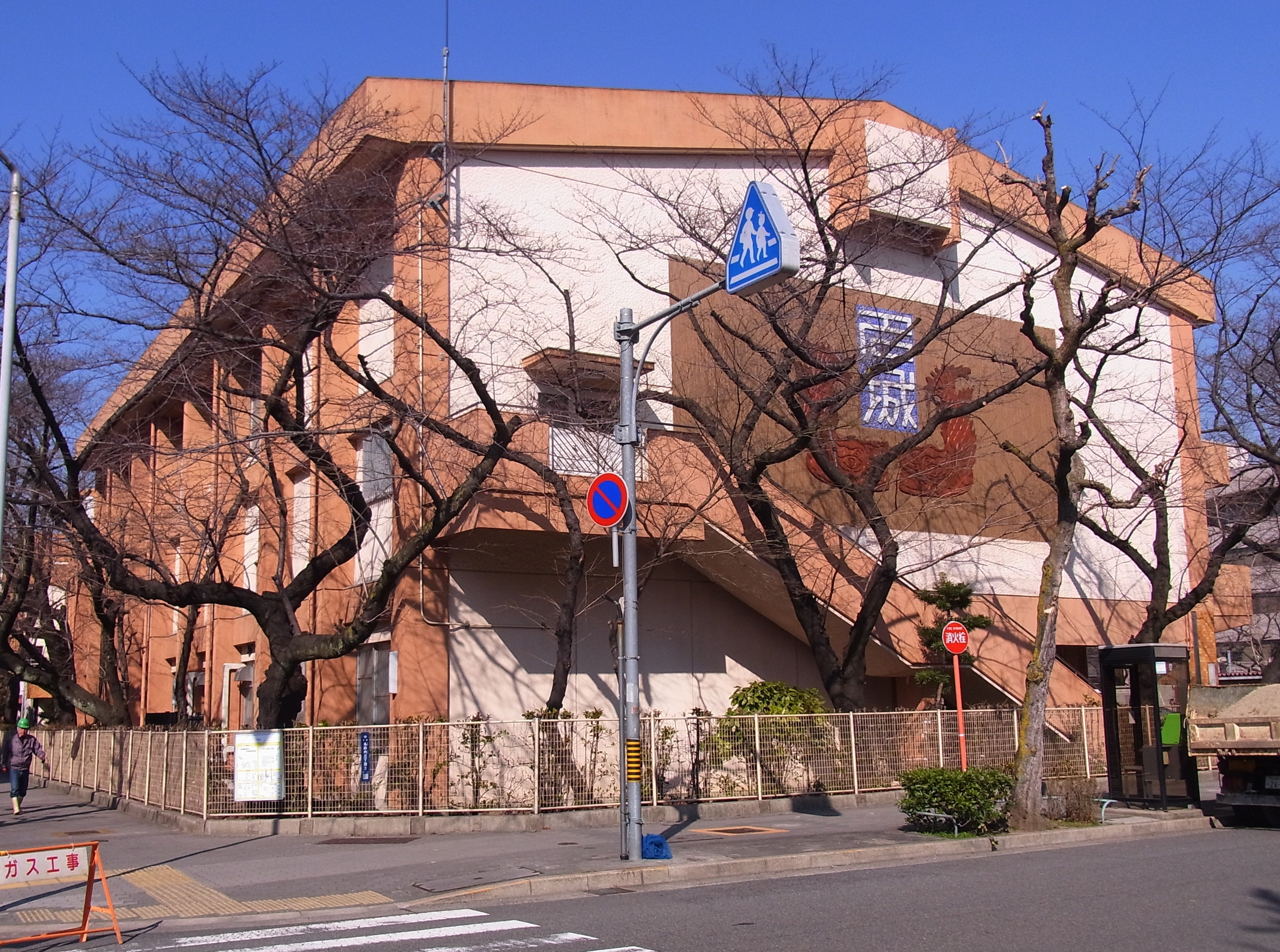 Nagoya City Meijo Elementary School in Naka-ku Ward, Nagoya City.